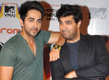 Ayuyshmann Khurana and Kunaal Roy Kapur at 'MTV Video Music Awards India 2013'